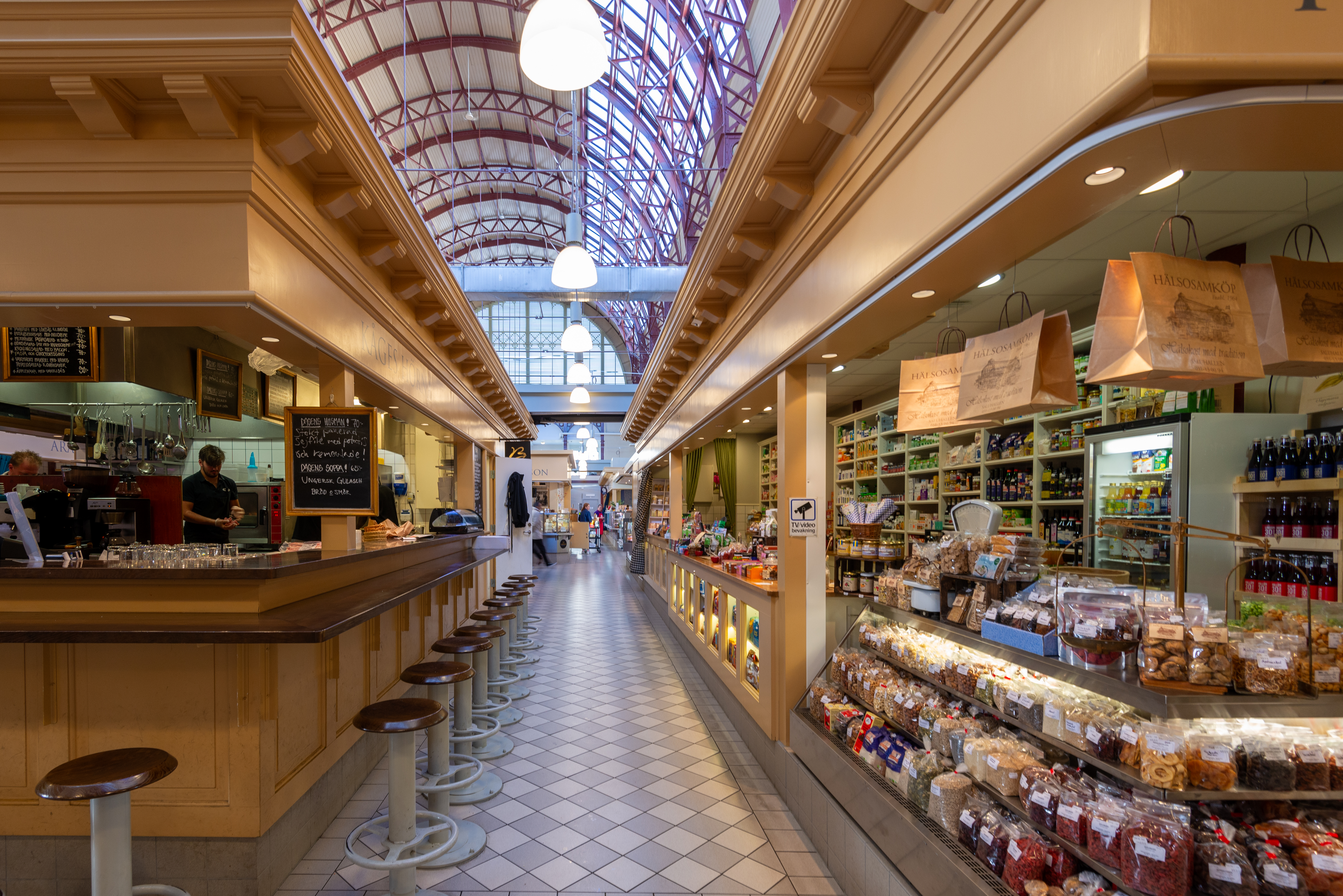 Göteborgs salu hall (Gothenburg market hall).